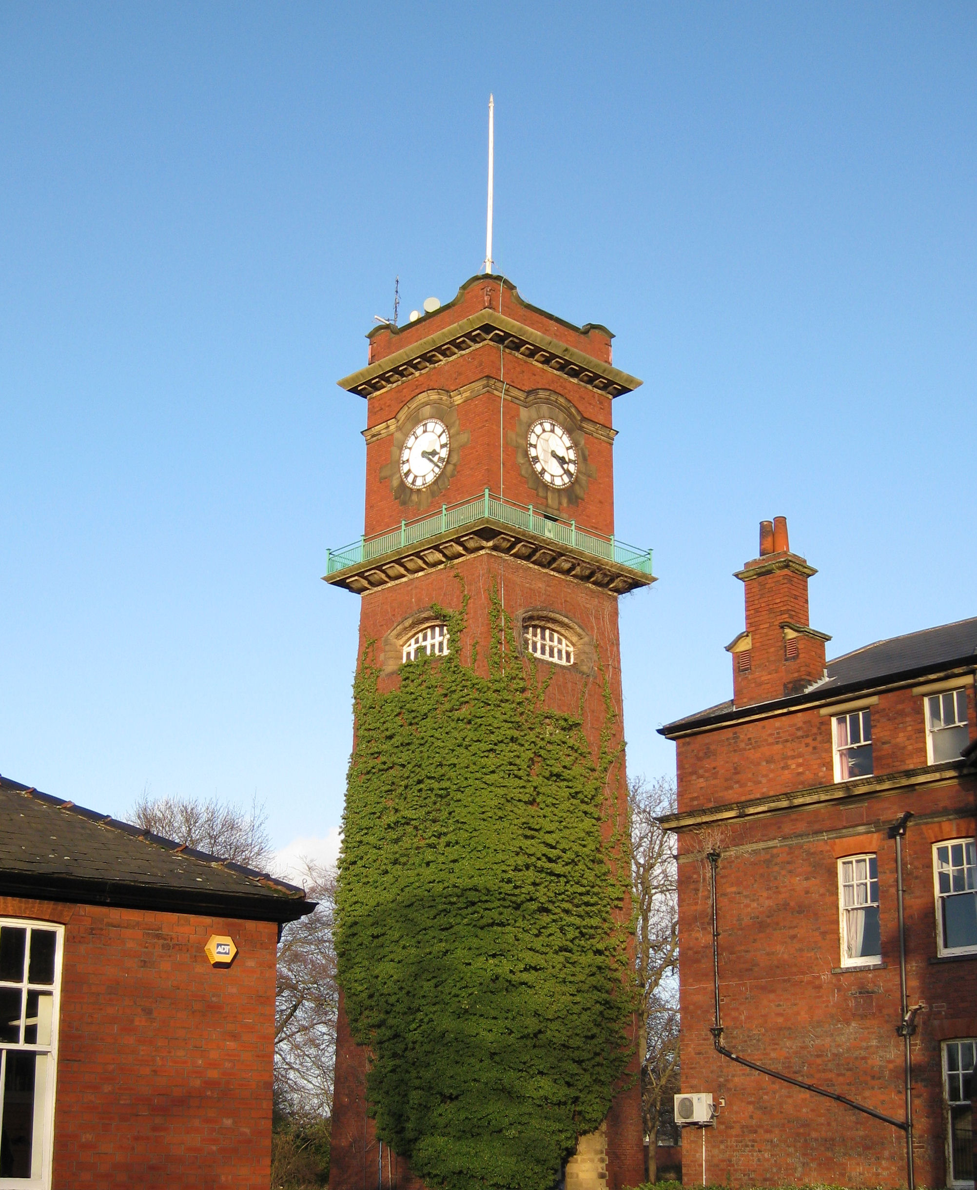 Clock Tower, Seacroft Hospital, York Road Leeds LS14 6UH